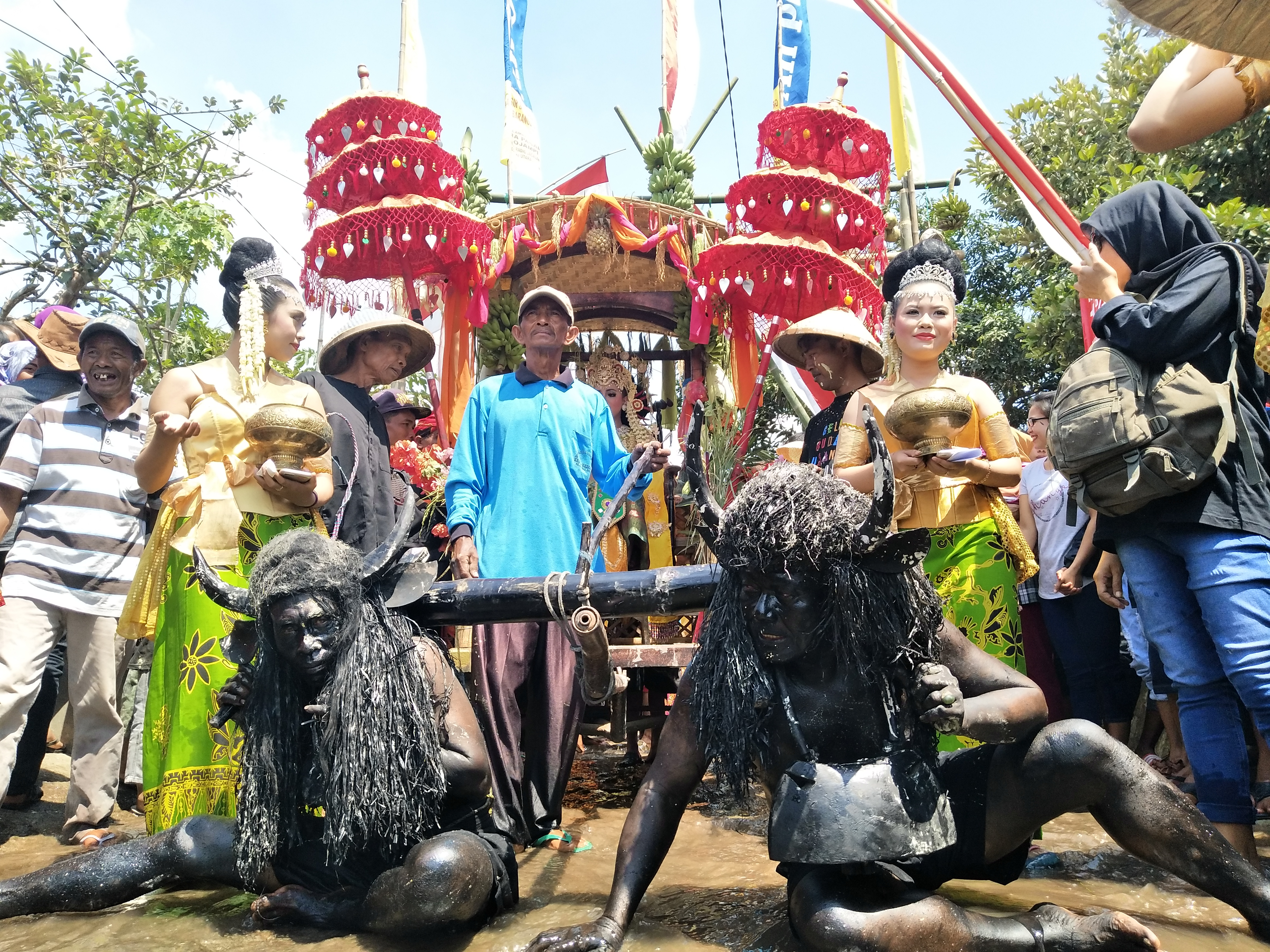 Ngider Bumi Ceremony, Kebo-keboan Alasmalang, Banyuwangi. On 1 Suro Month (Hijiri New Year) in the Javanese calendar every year, the Alasmalang Community, Banyuwangi Regency, routinely holds the Ngider Bumi event. In the procession or Ngider Bumi, Dewi Sri as a symbol of Dewi Padi (Goddess of Fertility) riding on a stretcher pulled by 2 people decorated with buffalo (kebo), this is a symbol of the gratitude of the local community for God's Blessings of God's Blessings. Most Gracious, good health blessings, fortune, long life and others. There are several series of events in the Earth Ngider ceremony, including: 1. Installation of the Planted Gate (done a week before the event begins); 2. Decking the Village Gate (Done e the day before the ceremony); 3. Village selametan and planting palawija (A day before the ceremony) 4. Festival Kebo-keboan and procession (Ngider Bumi)